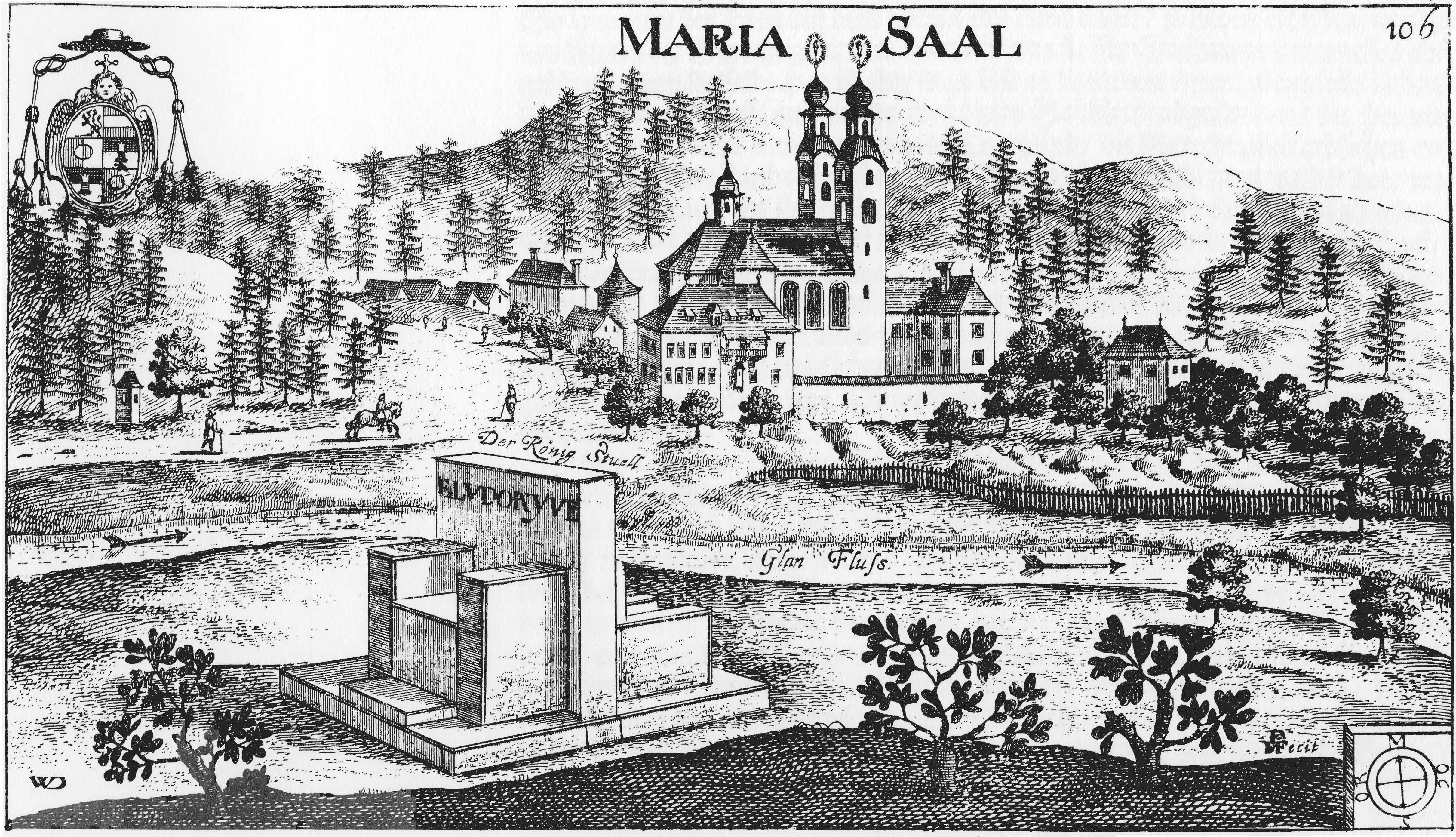 Castle of Maria Saal in Maria Saal / Carinthia / Austria / European Union.